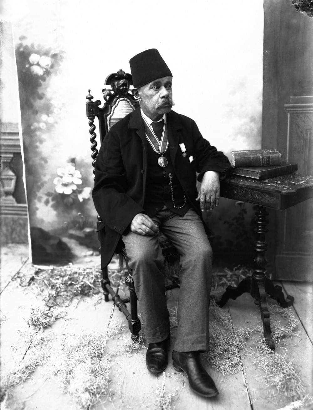 Photographic portrait of Pietro Marubi